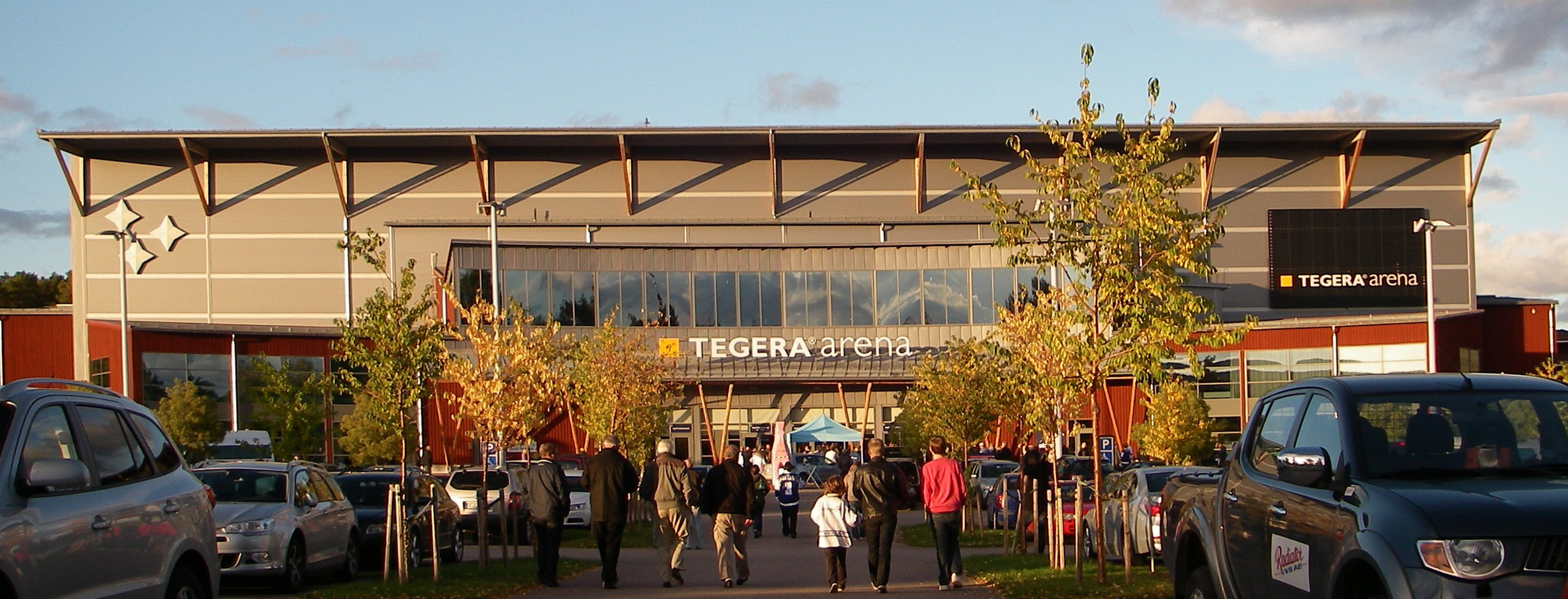 Tegera Arena in Leksand with new name, used to be Ejendals Arena.